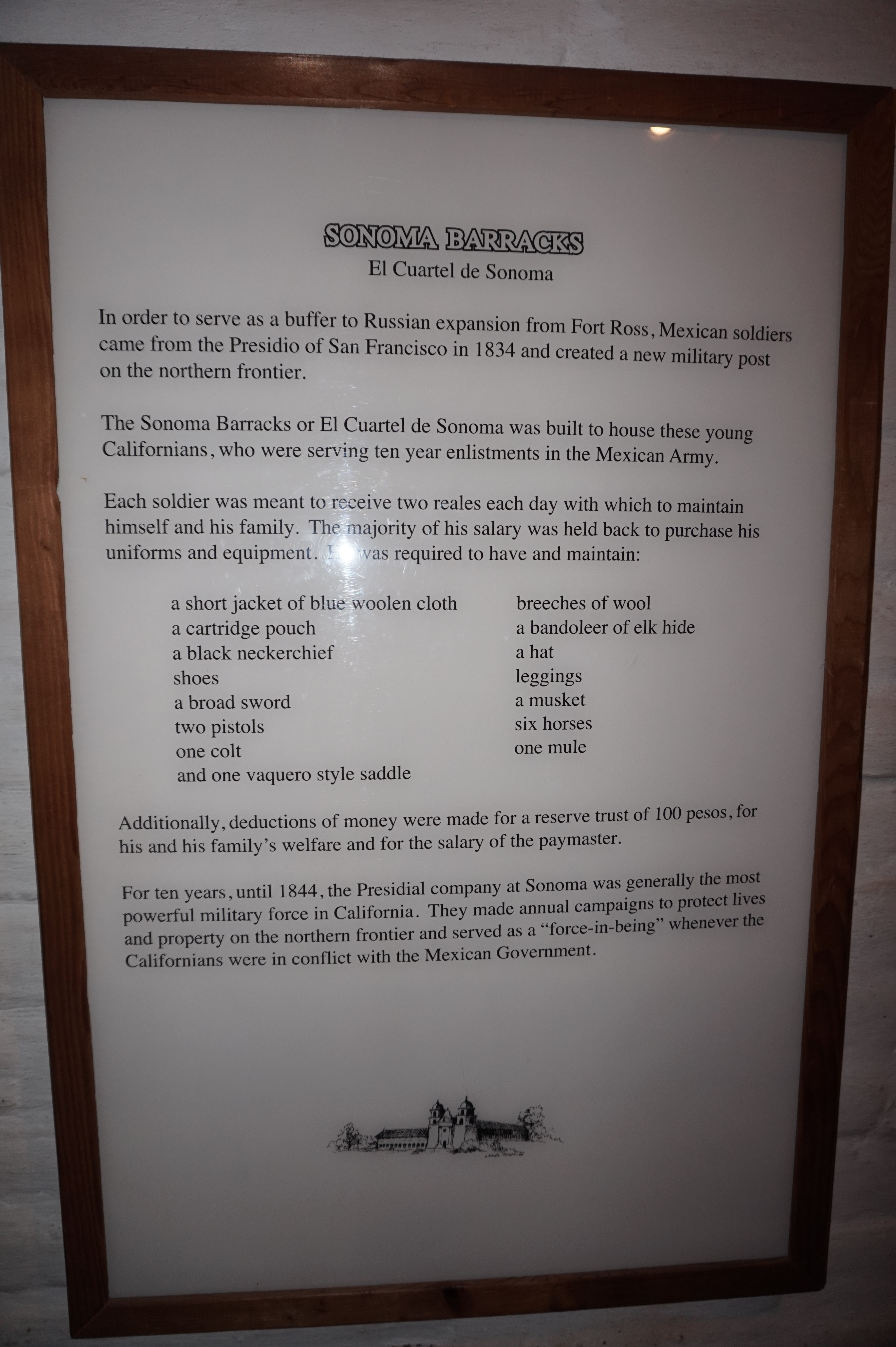 sonoma russians and spaniards